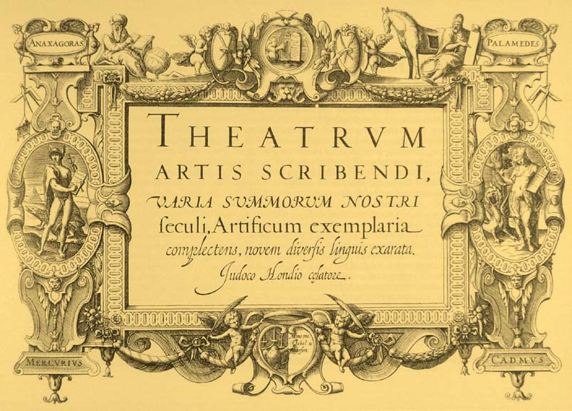 Page 1 (Title page / Frontispiece) from Theatrum artis scribendi, 1594 edition by Jodocus Hondius. Text in each corner, clockwise from top left: ANAXAGORAS PALAMEDES CADMUS MERCURIUS Centre text: THEATRUM ARTIS SCRIBENDI VARIA SUMMORUM NOSTRI feculi,Artificum exemplaria complectens, novem diver∫is, linguis exarata. Judoco Hondio ce∫atoze.